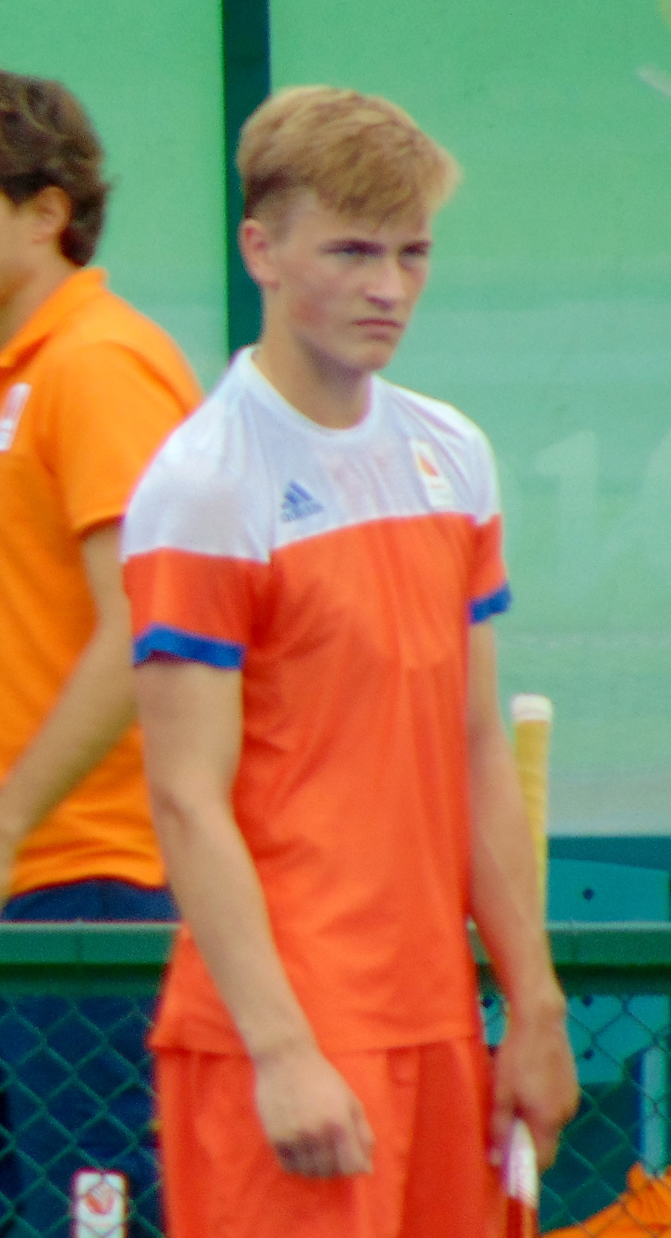 Rio 2016 - Men's and Women's Field hockey (HO025)